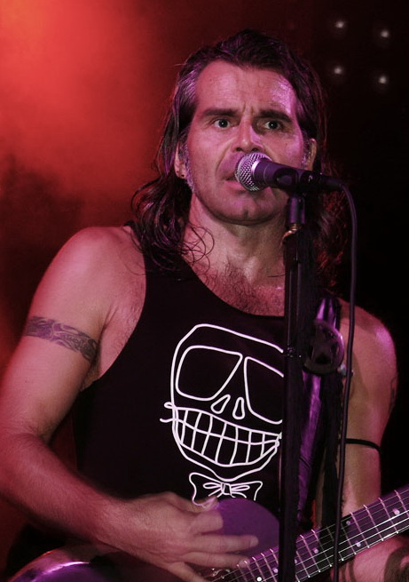 Italian rock singer Piero Pelù performing at a concert in Gricignano di Aversa, Italy.